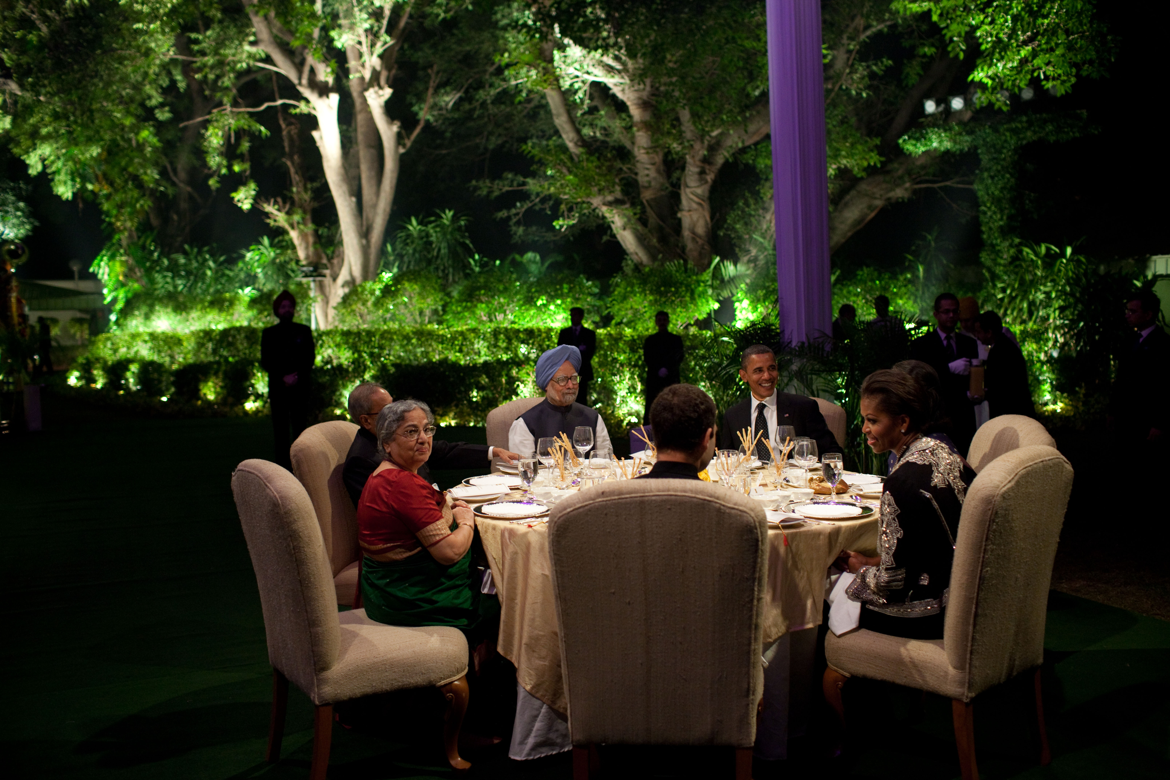 President Barack Obama and First Lady Michelle Obama attend a dinner hosted by Prime Minister Manmohan Singh and Mrs. Gursharan Kaur at the Prime Minister's residence in New Delhi, India, Nov. 7, 2010. They are seated with, counterclockwise from the President: Prime Minister Singh, Finance Minister Pranab Mukherjee, Mrs. Kaur, Rahul Gandhi and Sonia Gandhi. (Official White House Photo by Pete Souza)